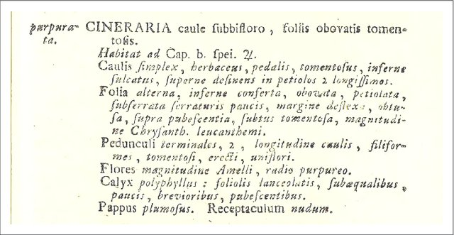 Photo of the description of Cineraria purpurata by Carl Linnaeus, in his book Mantissa plantarum altera, page 285, published in the year 1771. J.C. Manning considers C. purpurata an older synonym of Mairia hirsuta, and proposes the combination Mairia purpurata for it.